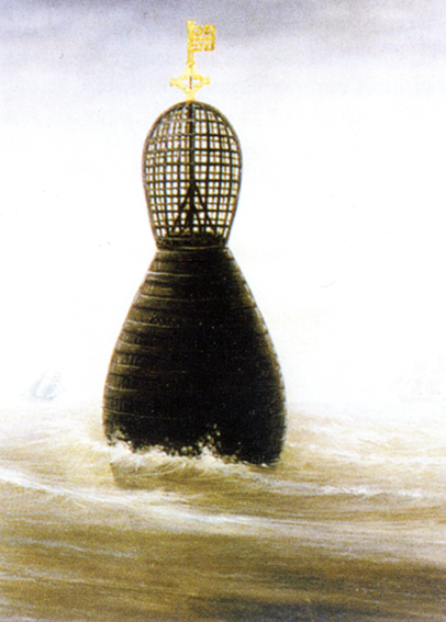 Oil painting from the 19th century, showing the Bremer Tonne (“Bremen bouy”) or Schlüsseltonne (“Key buoy”) north of the sand bank Roter Sand (“Red sand”), first established in 1664 to mark the route to the estuary of the Weser river.